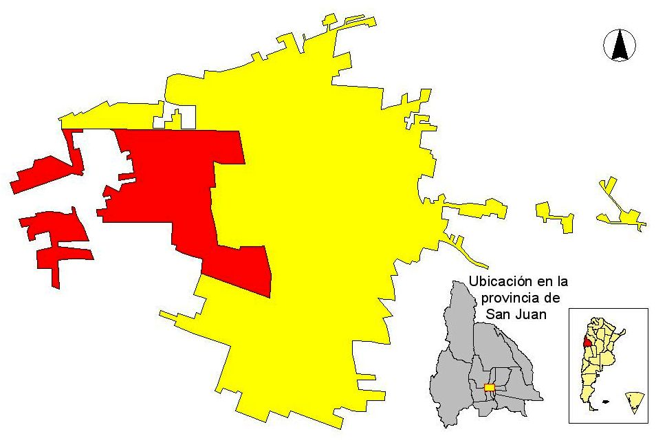 Map depicting the localizacón the Rivadavia Component within the urban agglomeration of Great San Juan, located in the San Juan Province, Argentina